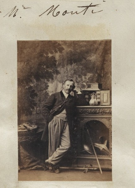 Raffaelle Monti (1818–1881)